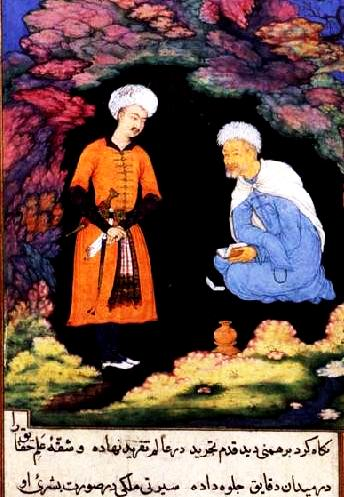 Hindu king Dabshalim visits Bidpay the Brahmin in his cave to learn the secret of the animal fables of Kalila and Dimna